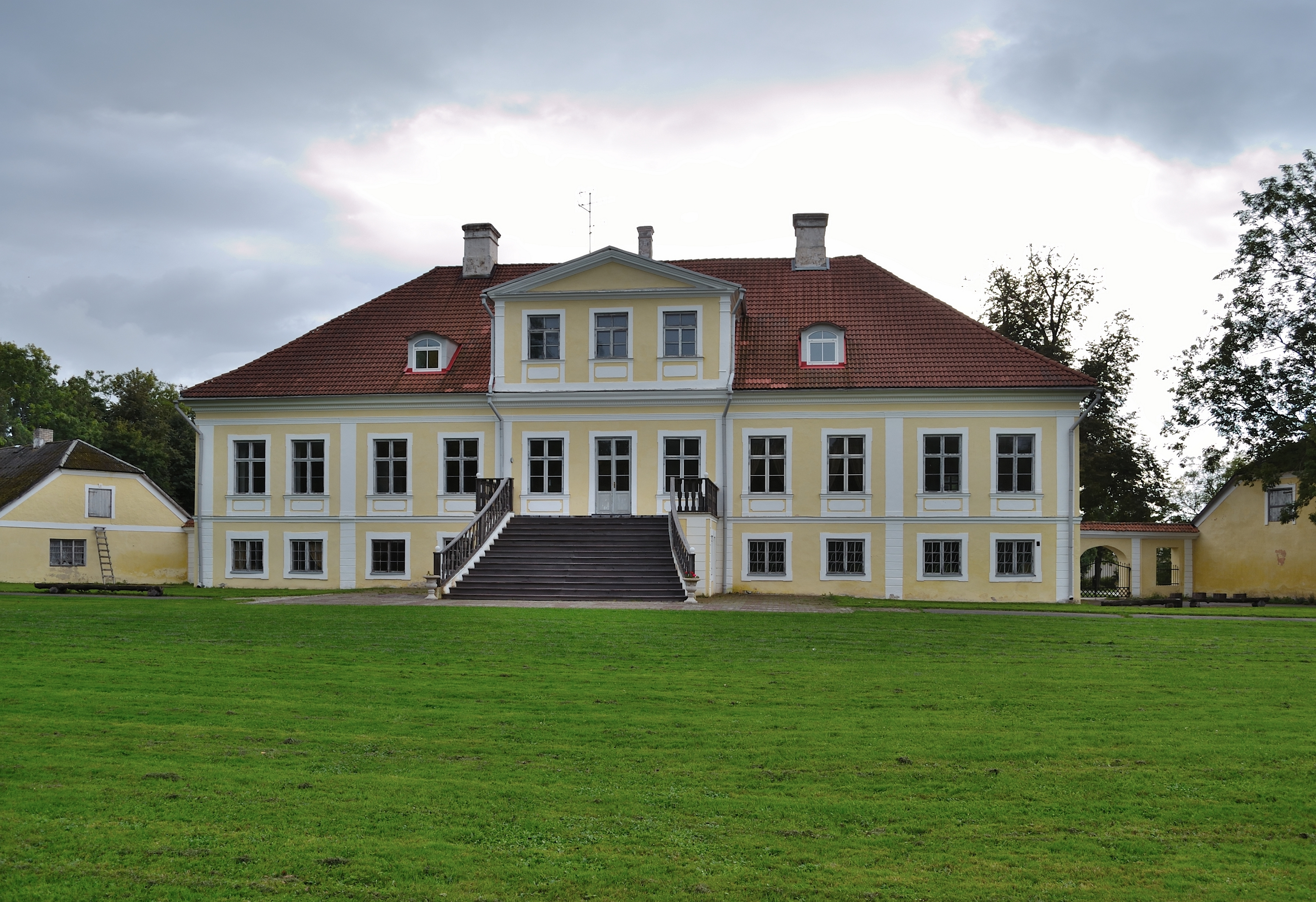 Saue manor main building, 18. century This photograph was taken with a Nikon D3100